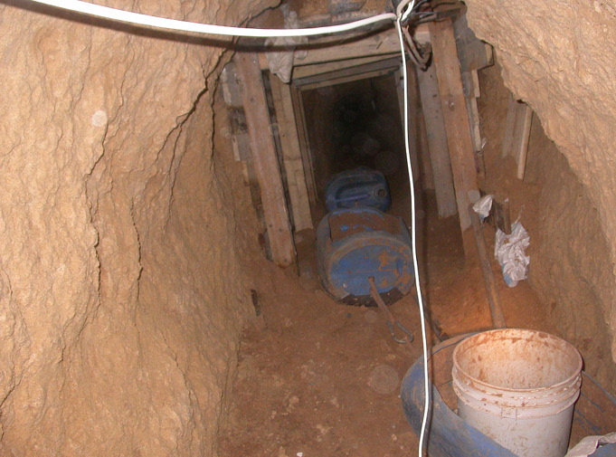 August 28, 2006 A detonated tunnel, originally designed to facilitate terror attacks in Israeli territory, dug in the direction of the Karni humanitarian crossing between Israel and Gaza.